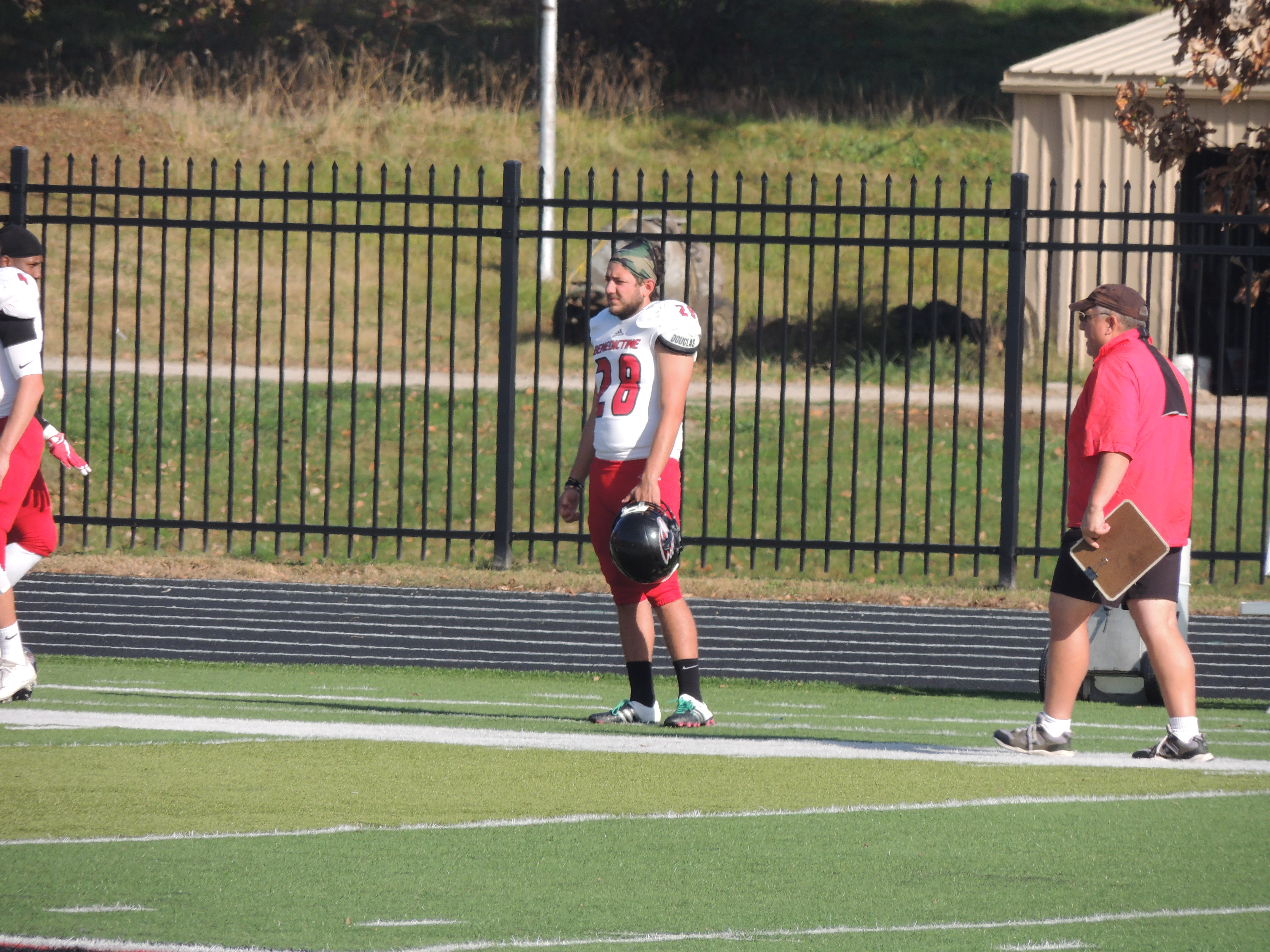 Riquelme watching game